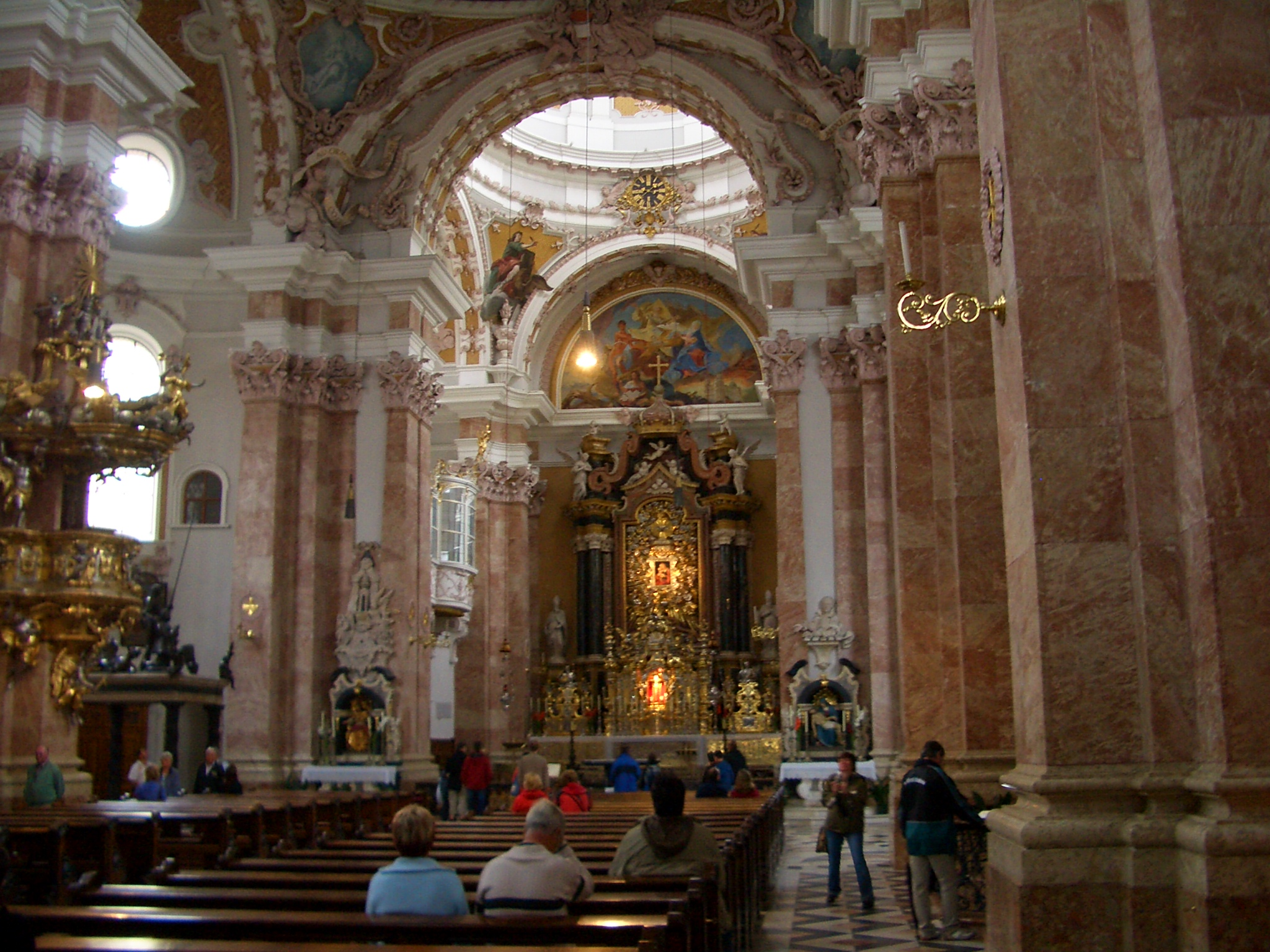 St Jacob's Cathedral, Innsbruck